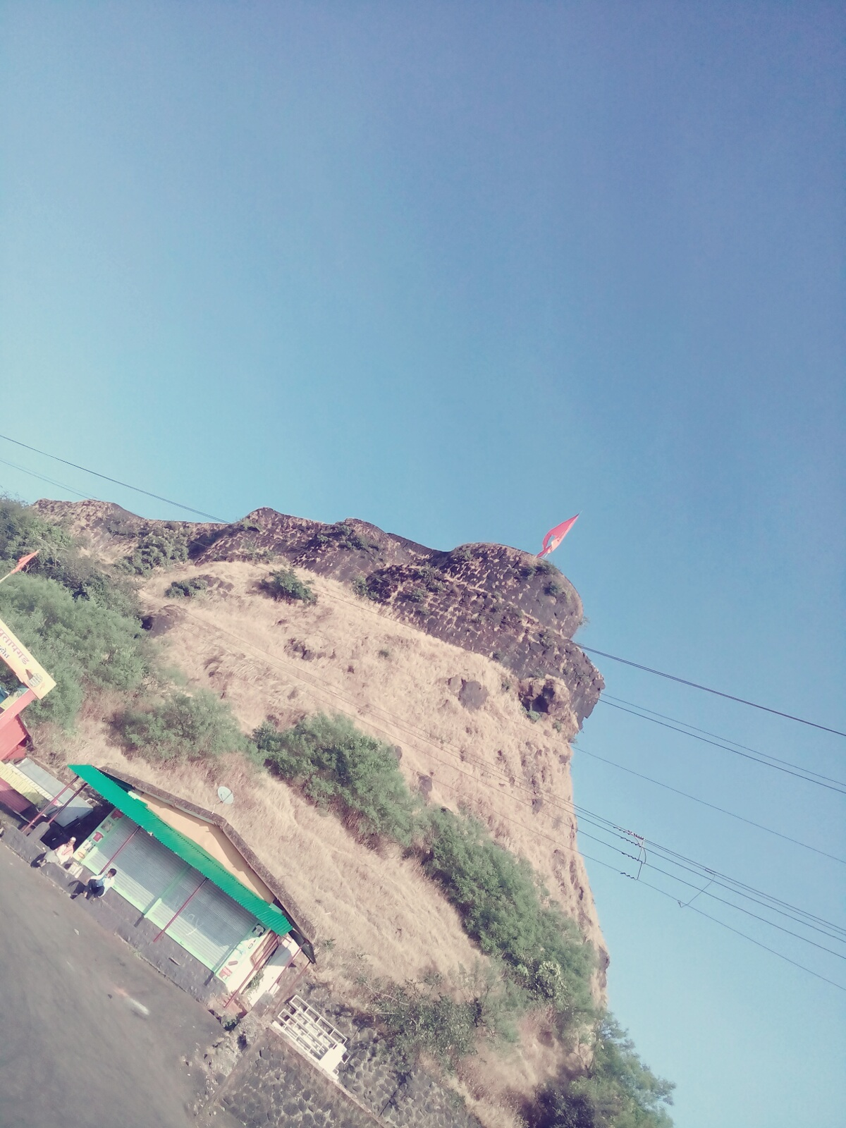 Shivaji Maharaj fort